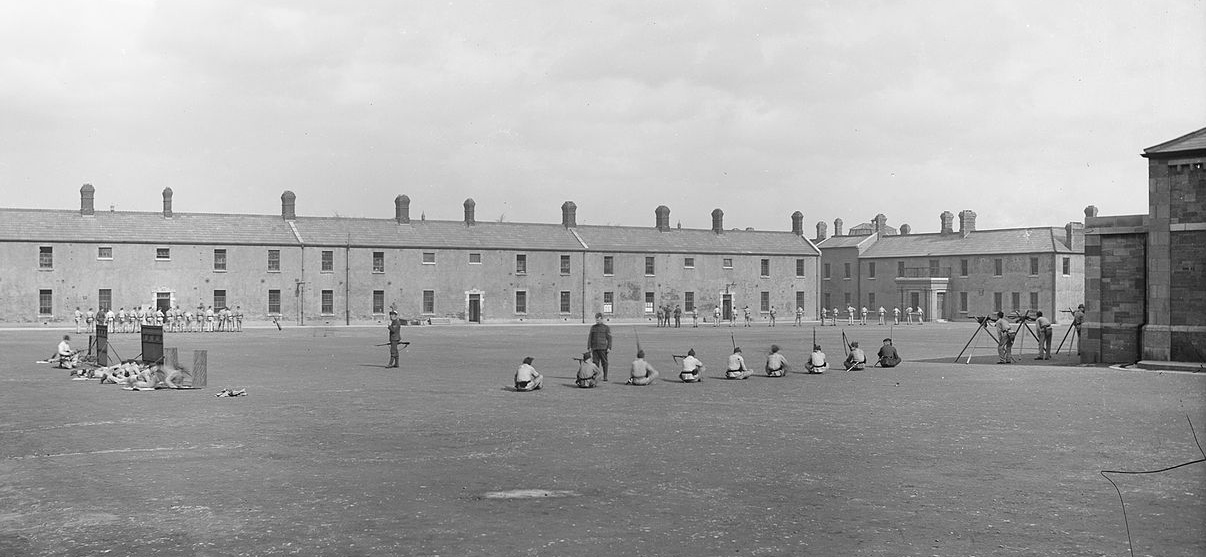 Cropped image of historic photo of Portobello Barracks square in Dublin, Ireland